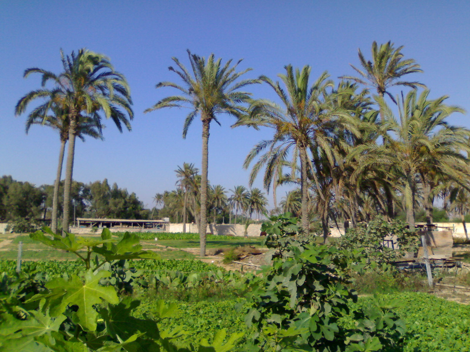 A farmm in Awjilah oasis, Libya.